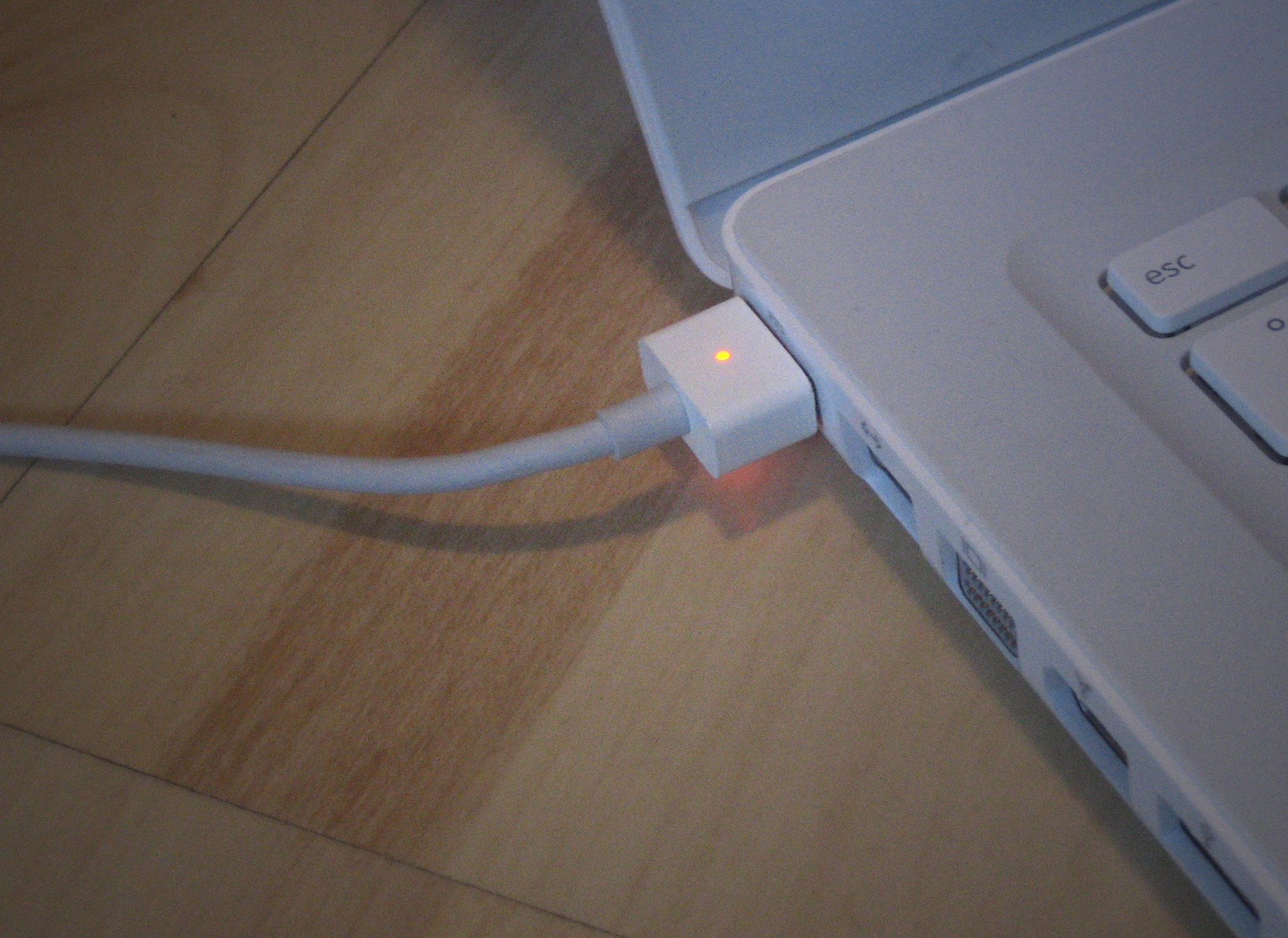 Apple MagSafe plugged in a 13,3" MacBook, orange LED = currently charging